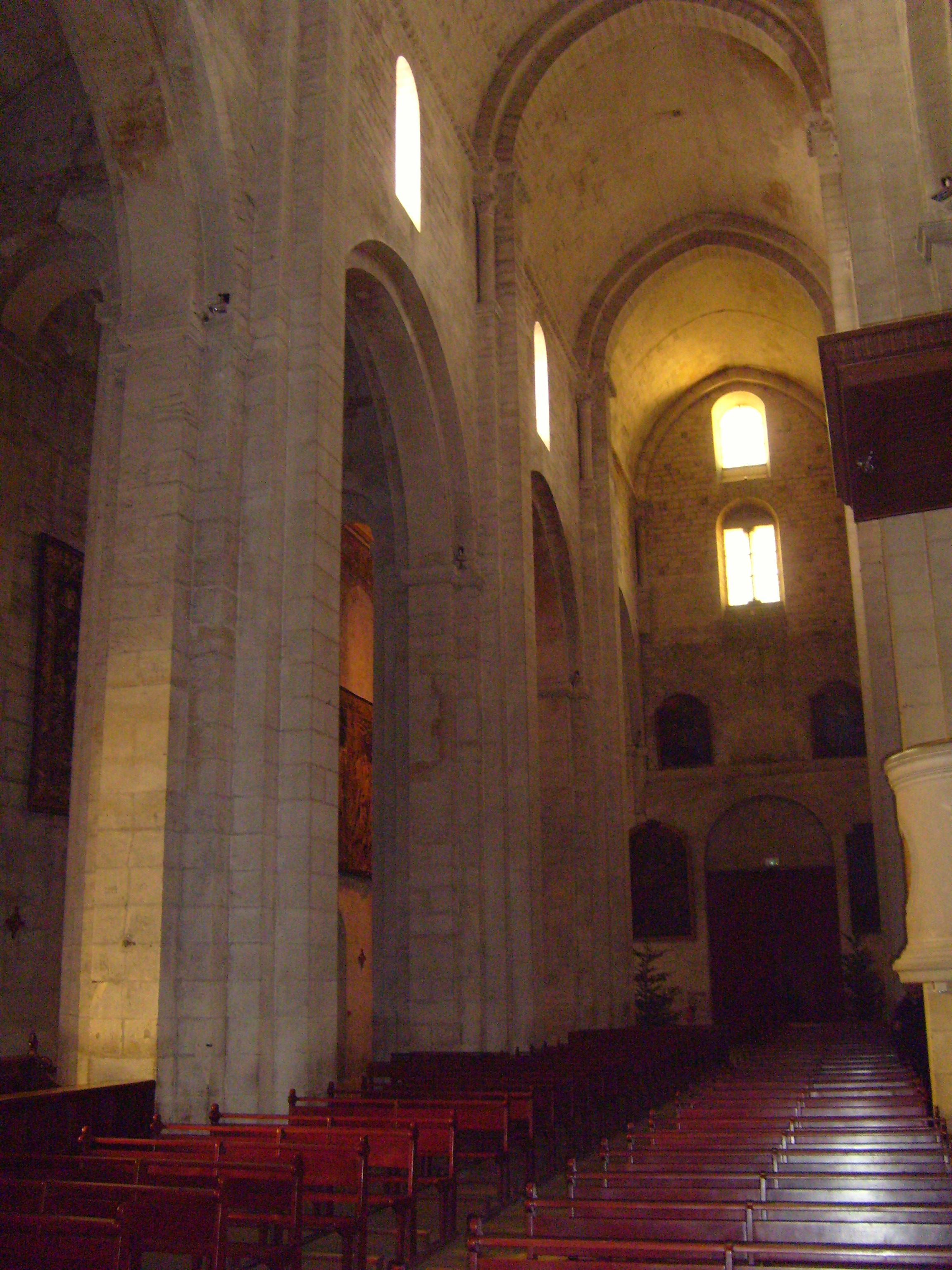 Nave of St. Trophime Church in Arles, France